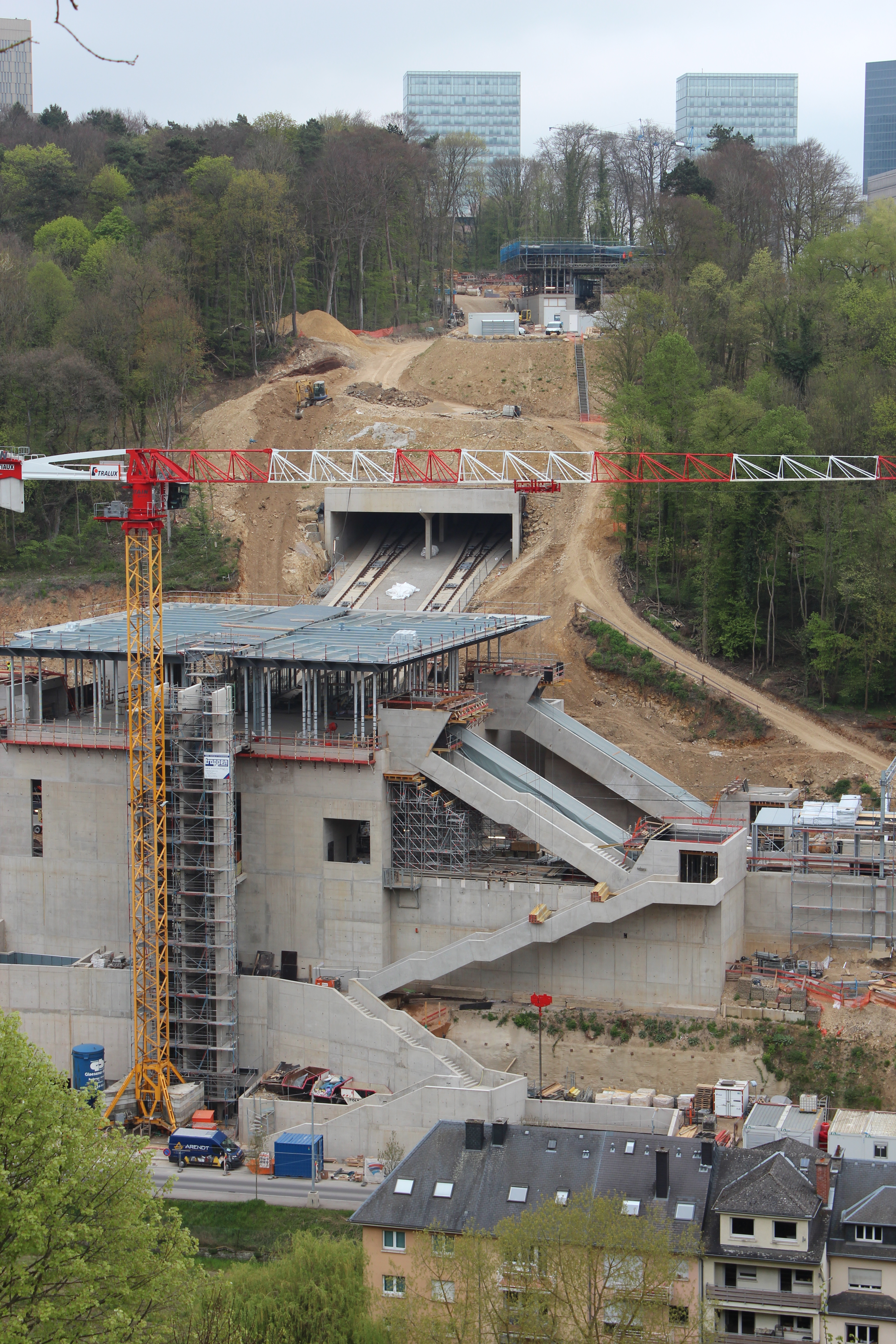 building site of Pfaffenthal-Kirchberg railway station (front) and funicular, April 2017.